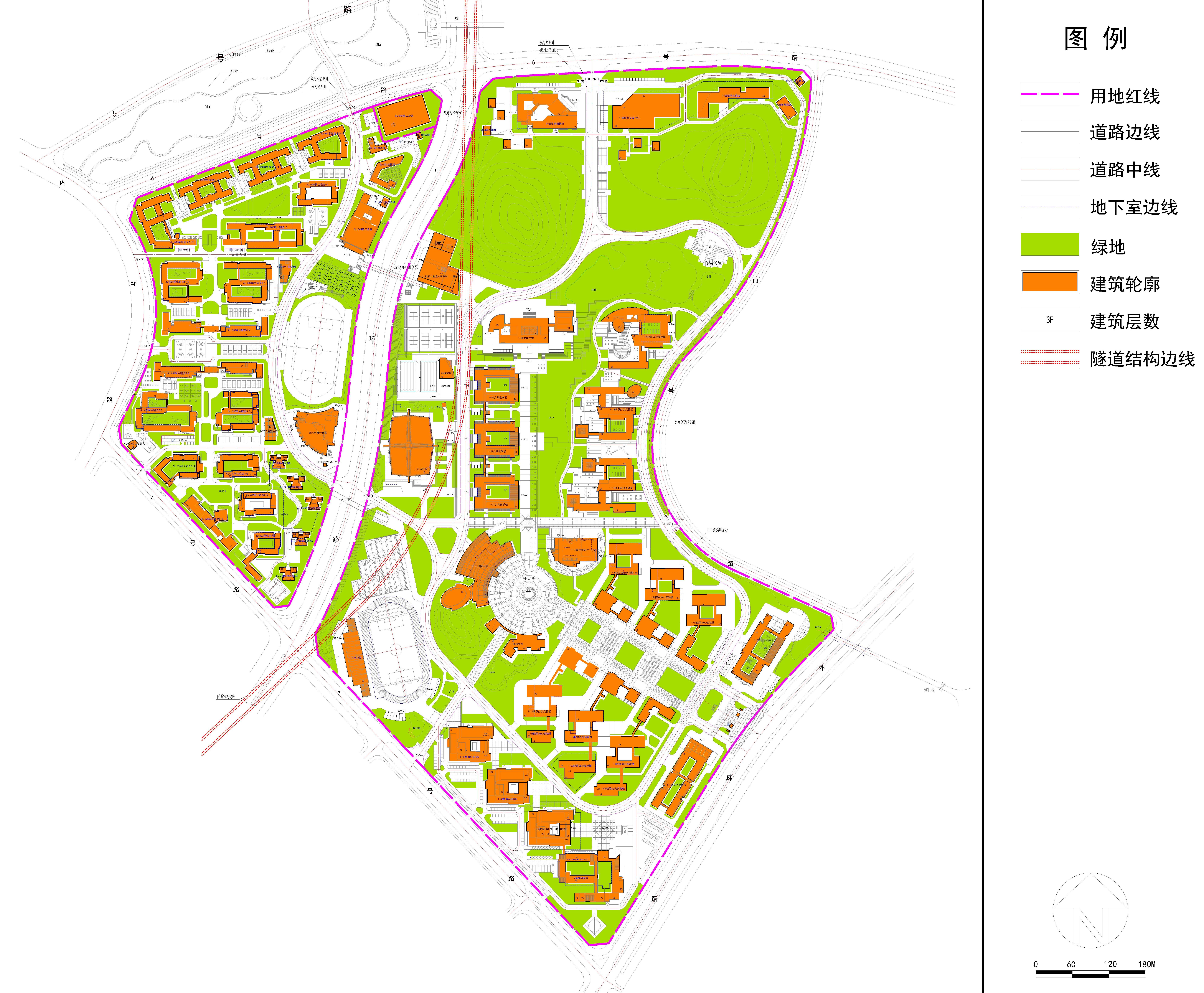 Campus Plan of University Town Campus, South China University of Technology (2018)